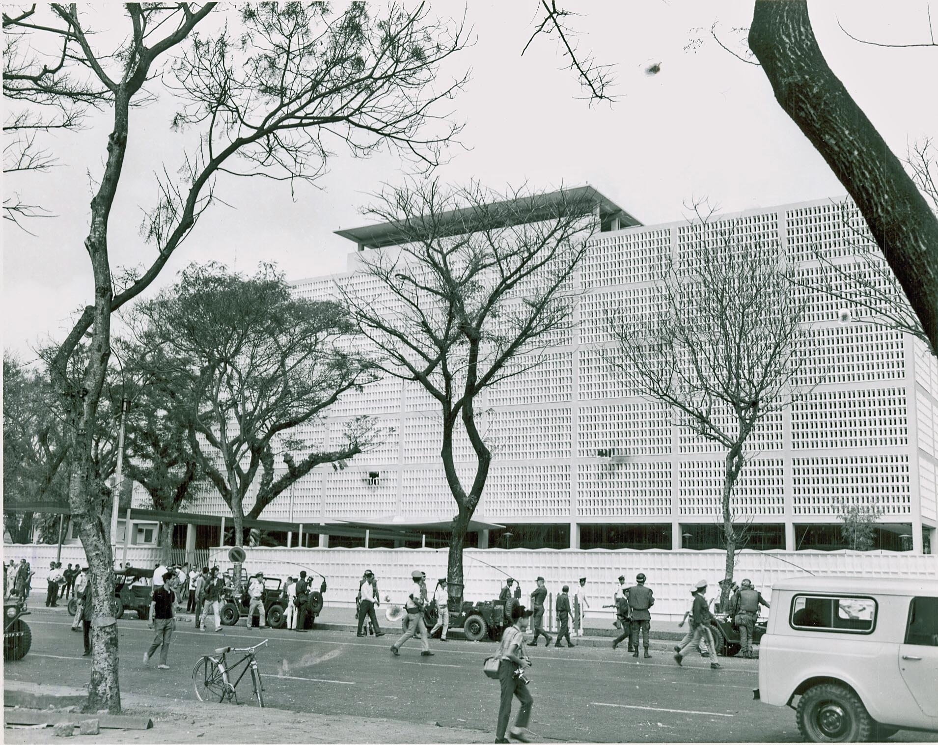 The attack upon the US embassy in Saigon during the Tet Offensive was one event that left an indelible impression upon the minds of the American public